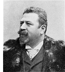 Francesco Tamagno